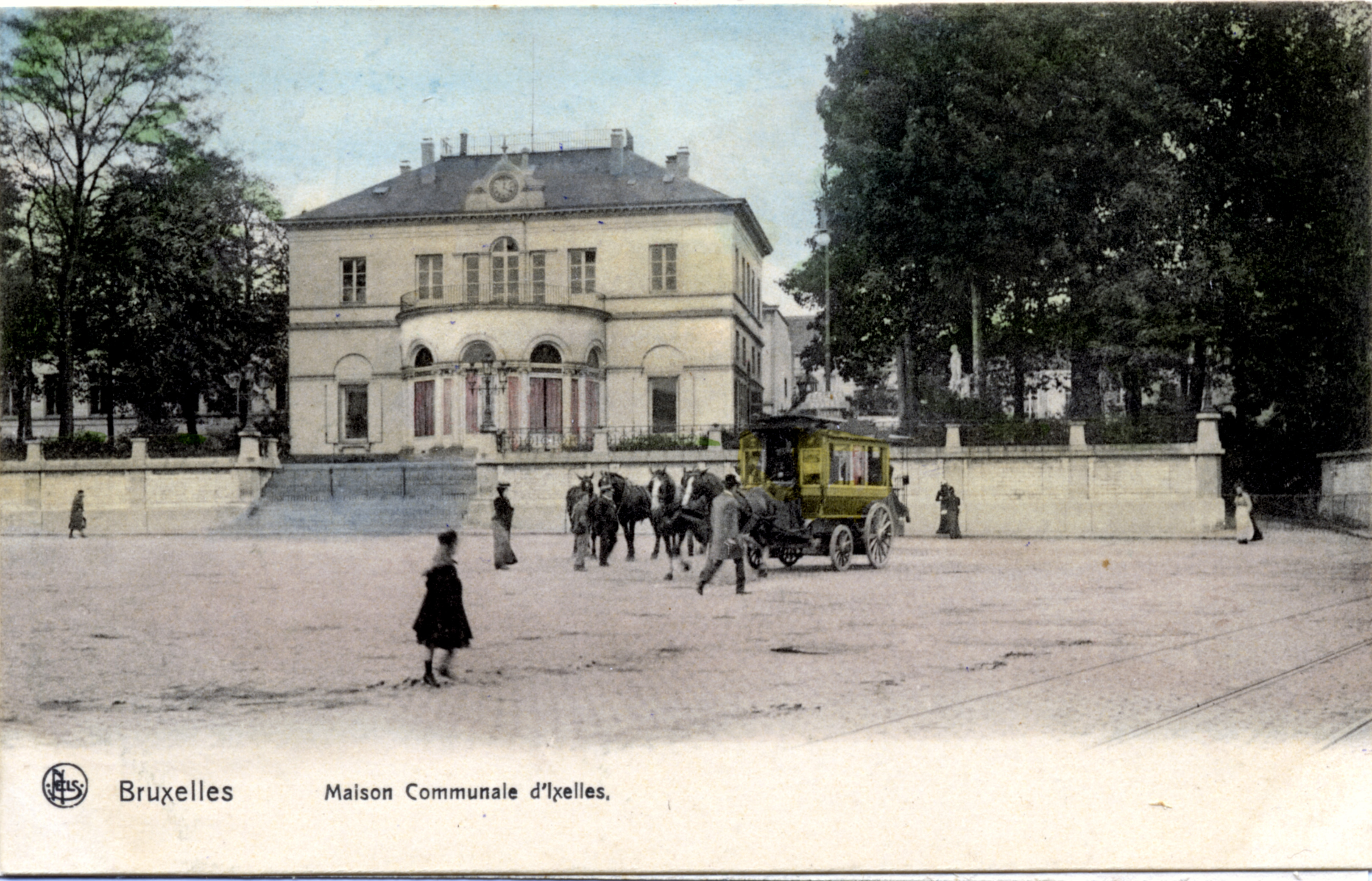 Malibran'hotel-city hall of Ixelles-Brussels